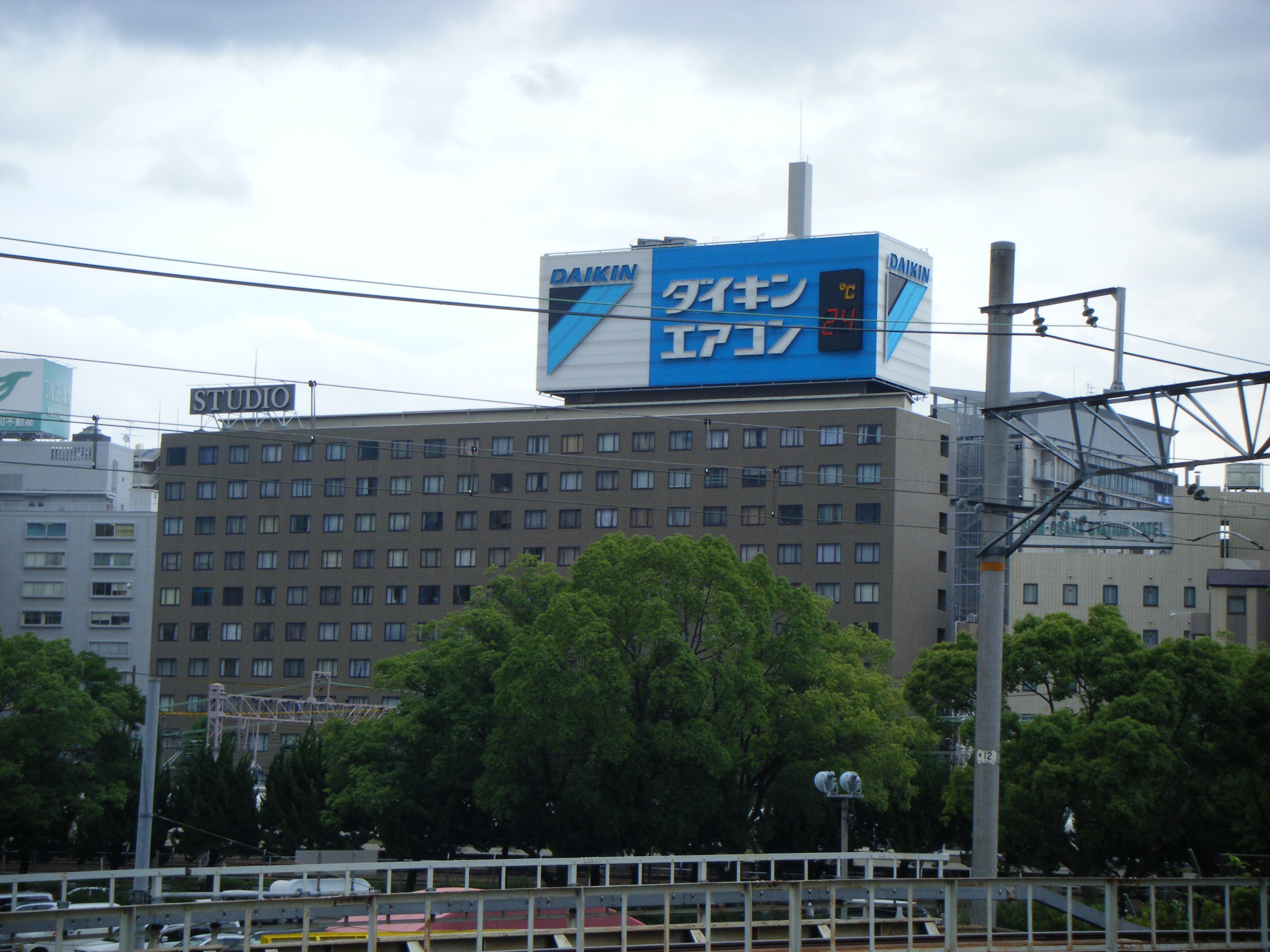 Billboard of Daikin Industries, Shin Ōsaka Station